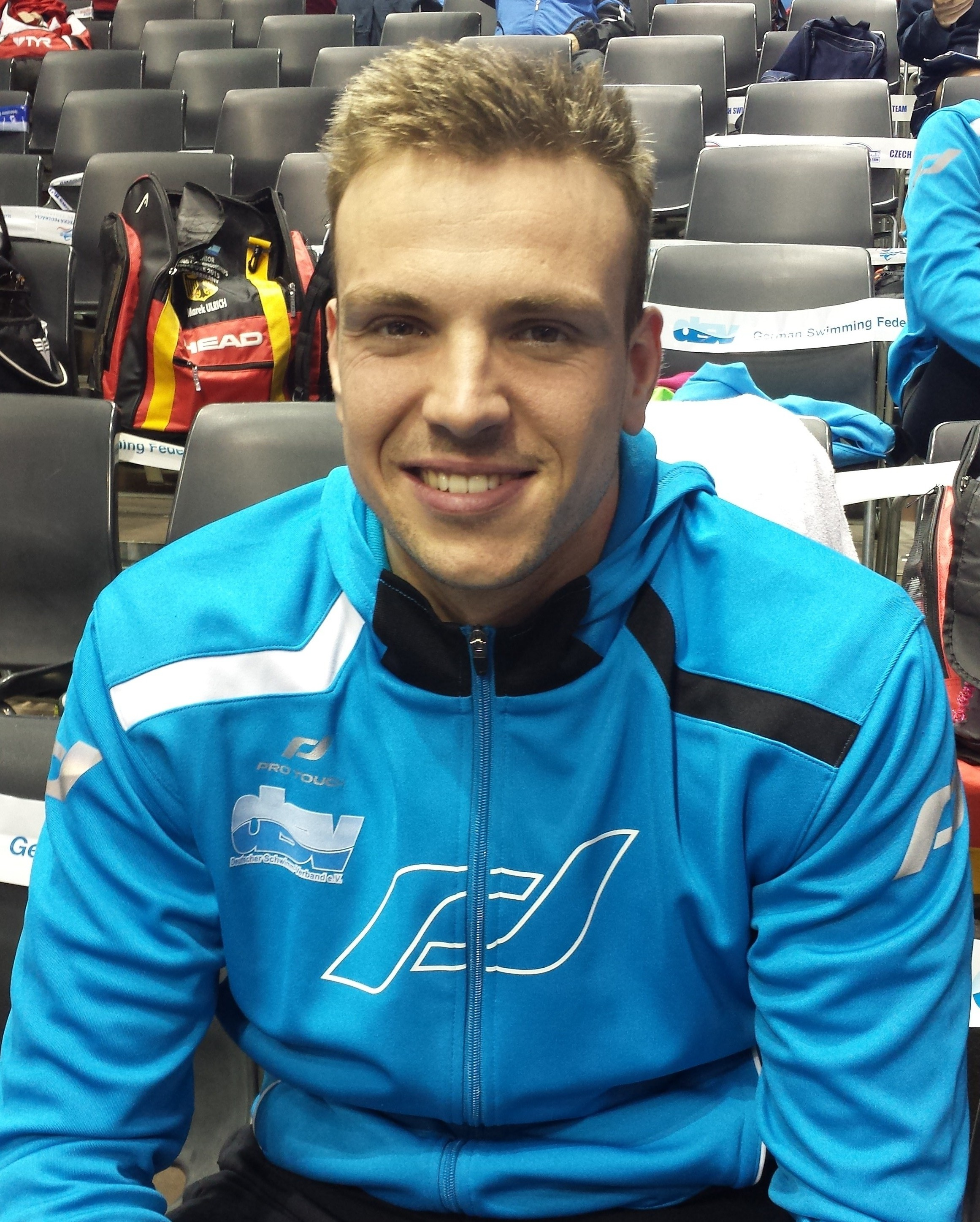 Paul Biedermann in Euroean short course swimming championship 2015, Netanya, Israel.